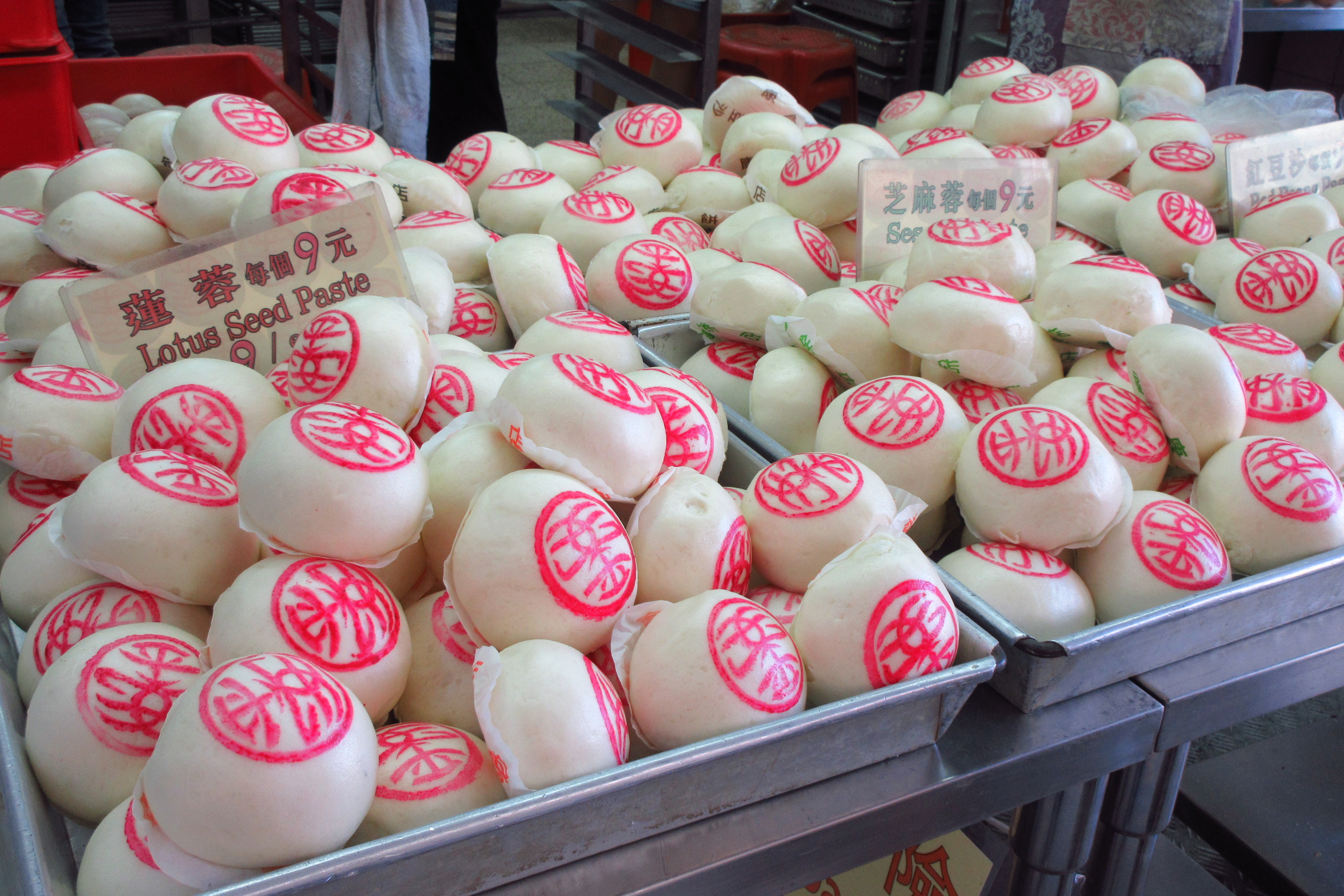 HK 長洲 Cheung Chau 新興海傍街 San Hing Praya Road in May 2018